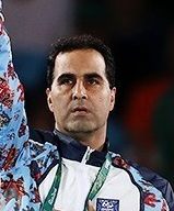 Taekwondo at the 2016 Summer Olympics – Men's 80 kg